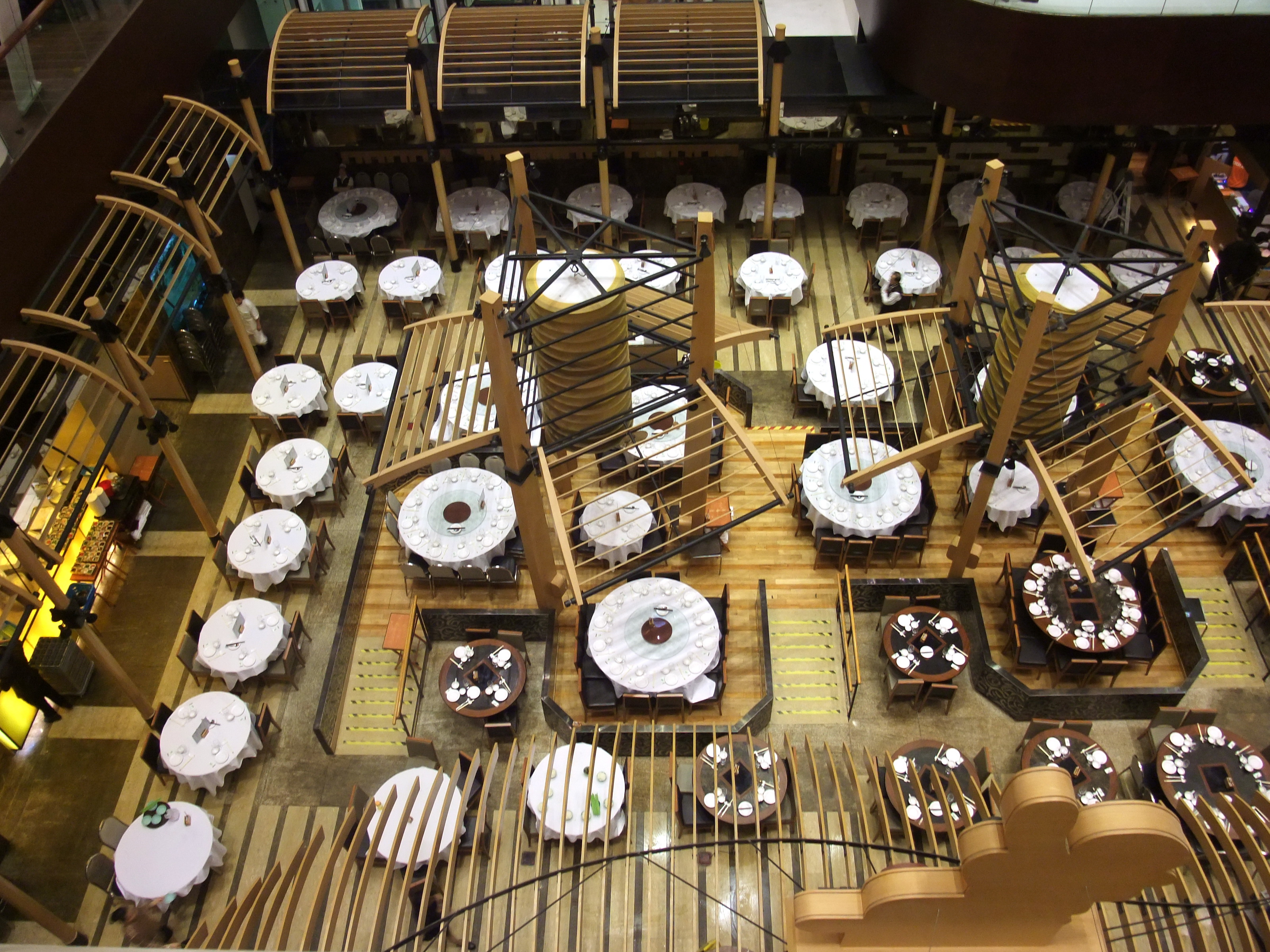 Tao Heung restaurant at Maritime Square, Tsing Yi, Hong Kong. 稻香於青衣城地下的分店